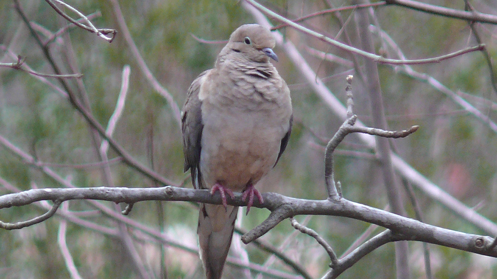 A Mourning Dove (Zenaida macroura) perched on a tree branch. Photo taken with a Panasonic Lumix DMC-FZ50 in Johnston County, North Carolina, USA.